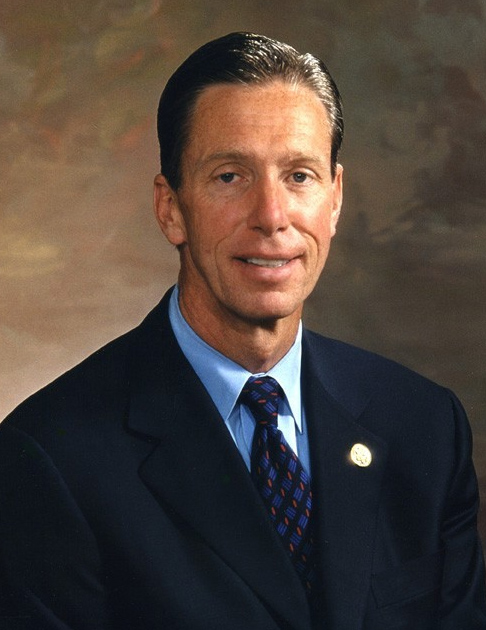 Official congressional portrait of Stephen F. Lynch, member of the United States House of Representatives, in the 110th Congress.